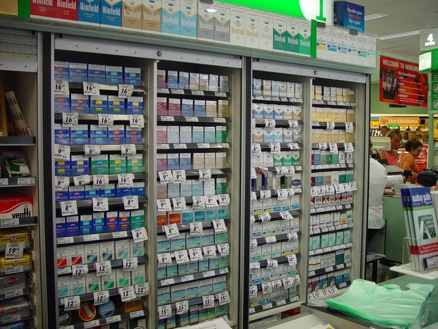 from